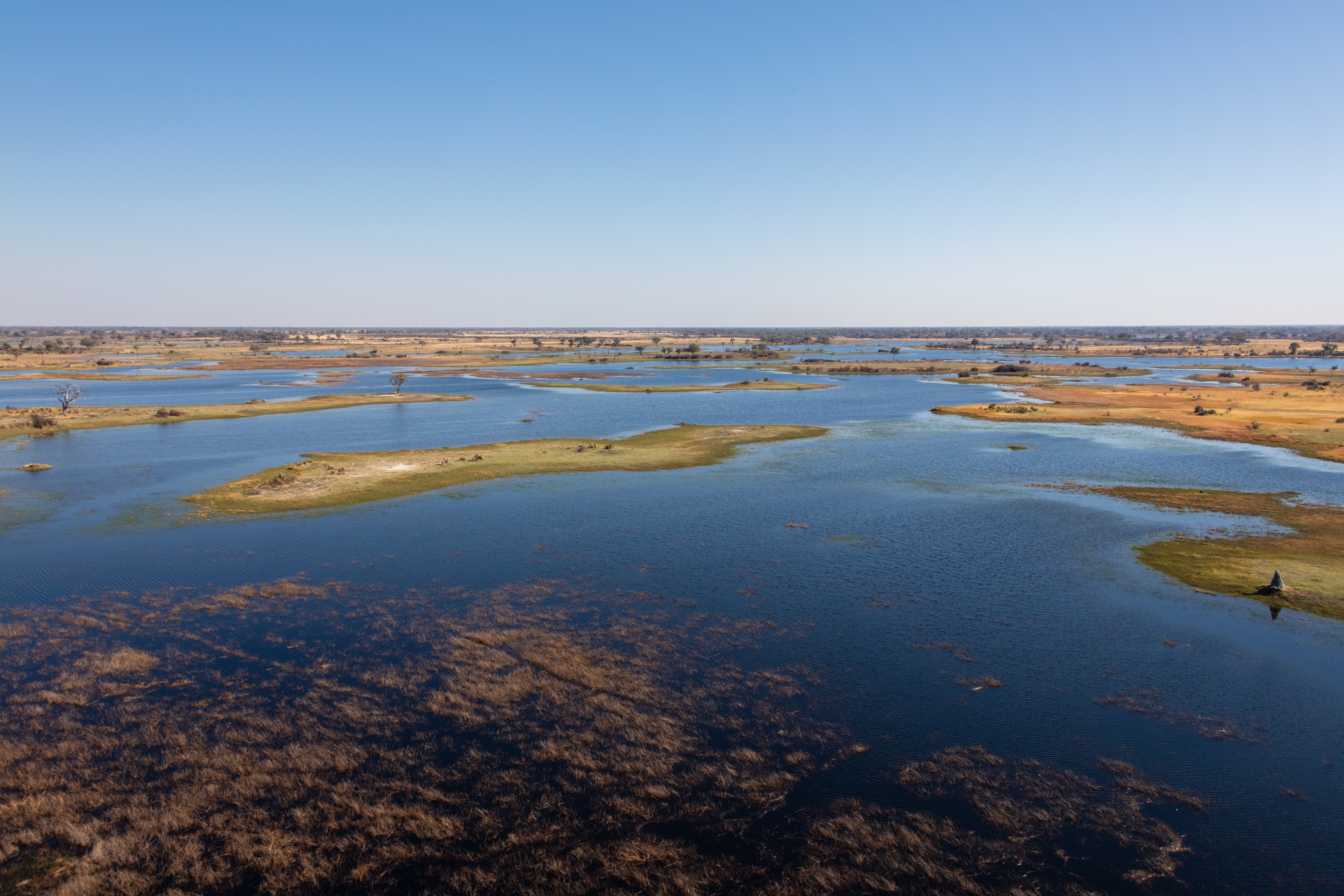 Aerial view of Okavango Delta, Botswana